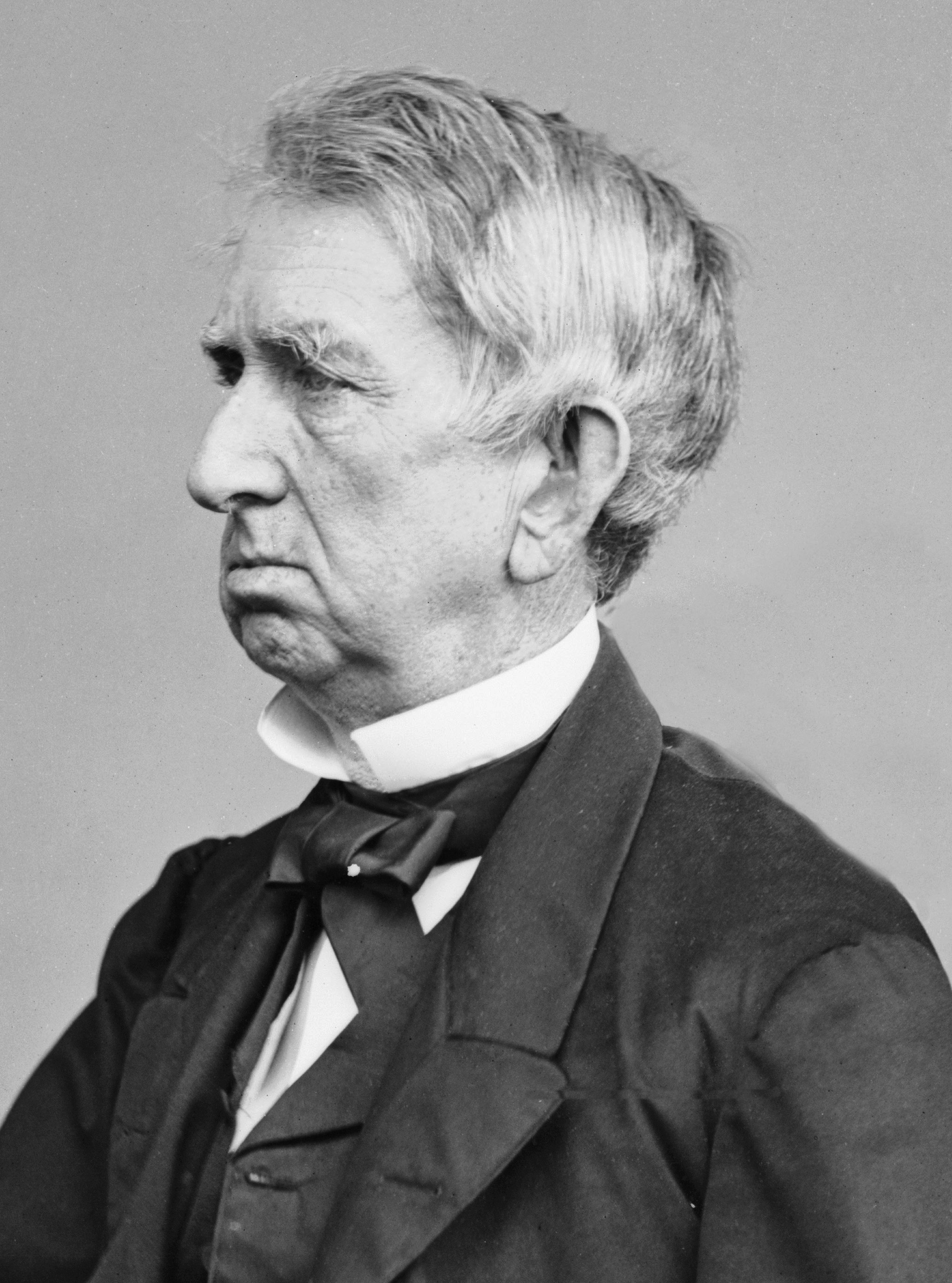 William Henry Seward, circa 1860-1865